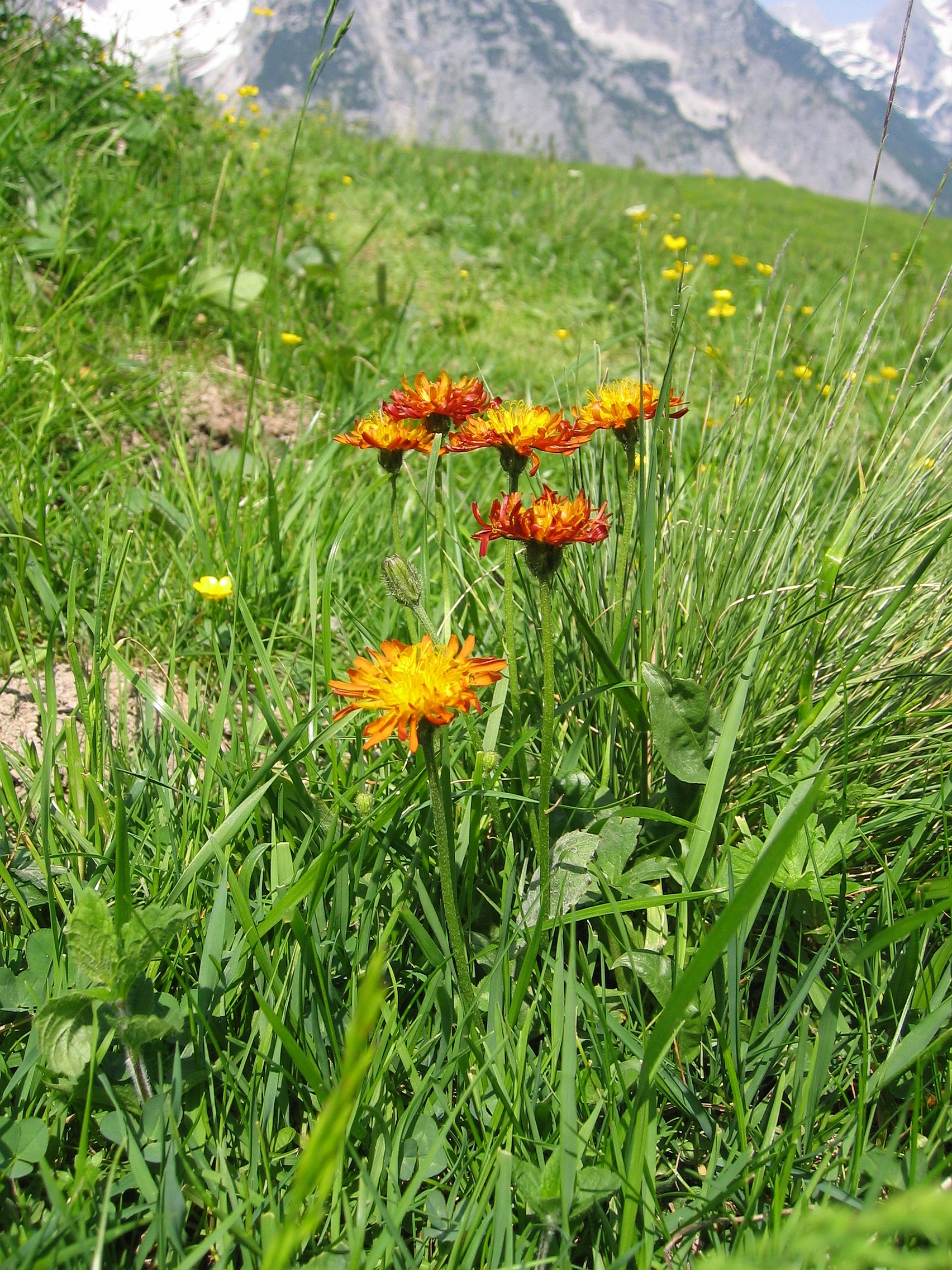 Crepis aurea, Hinterstoder, Upper Austria, Austria